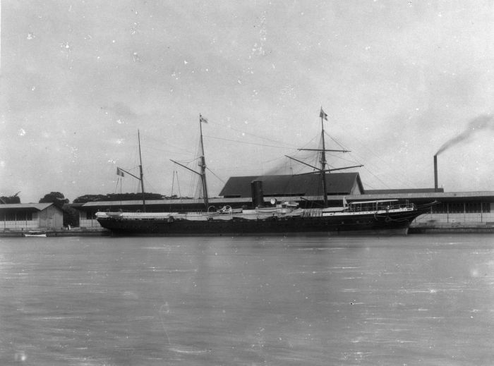 Messageries Maritimes steamship Godavery in harbour at Tandjong Priok, Batavia, Dutch East Indies